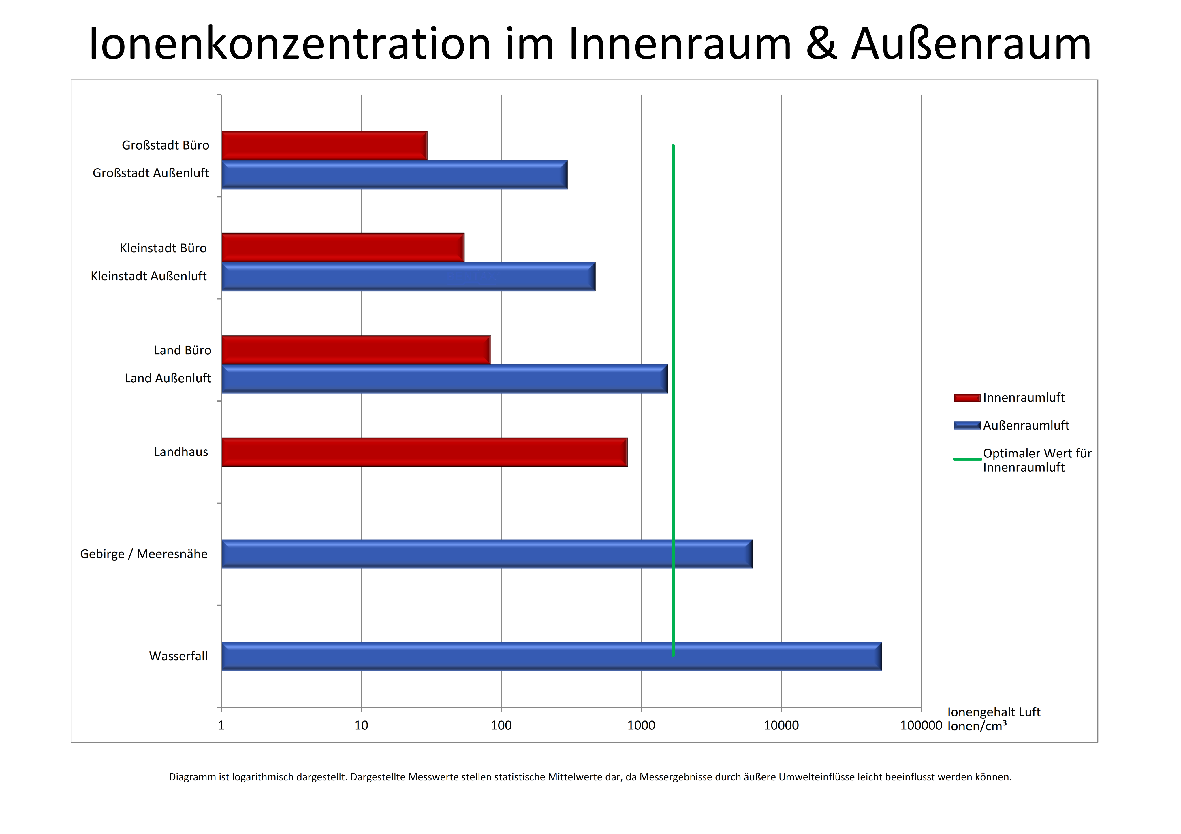 Comparison of the ion concentration inside and outside space.